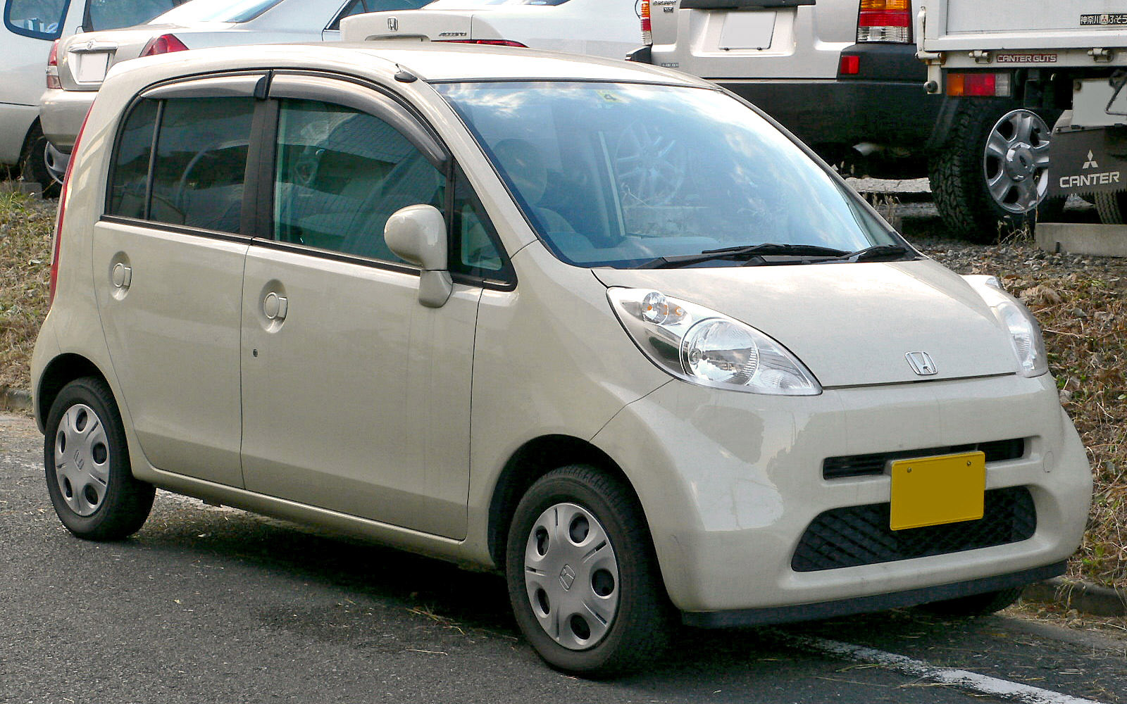 The 4th generation Honda Life (2003 - 2006)